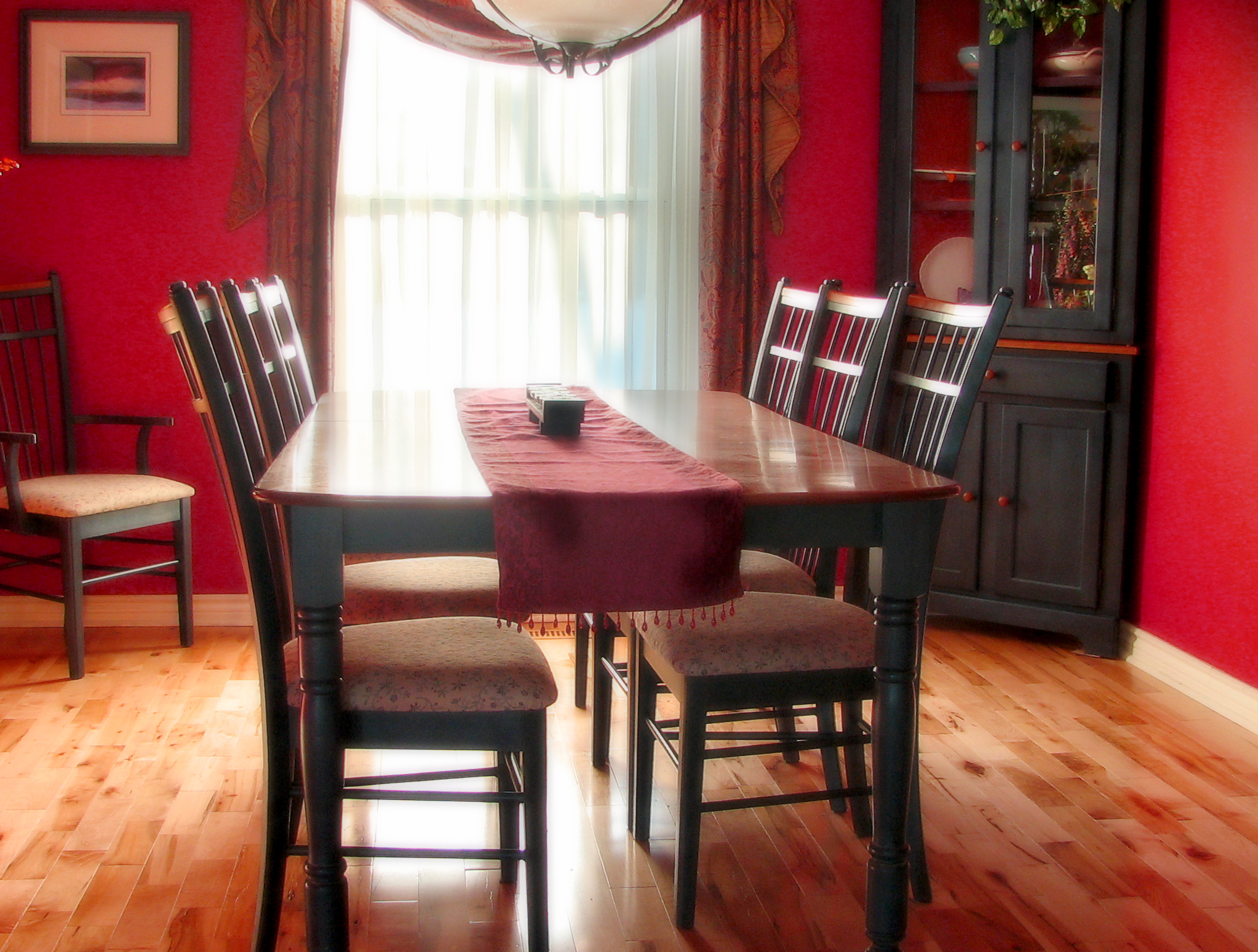 A dinner table with wooden chairs in a living room.